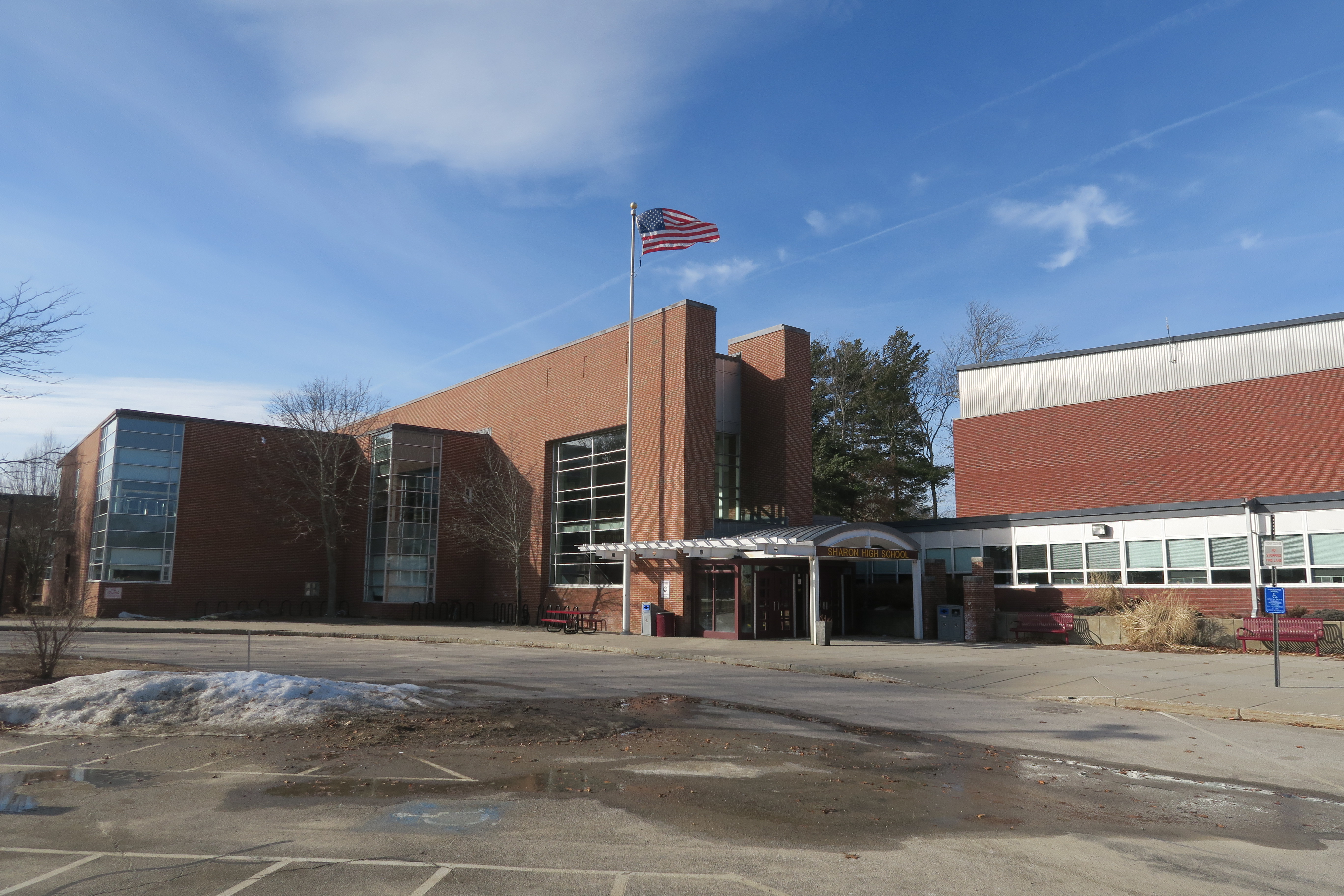 Sharon High School, Sharon Massachusetts